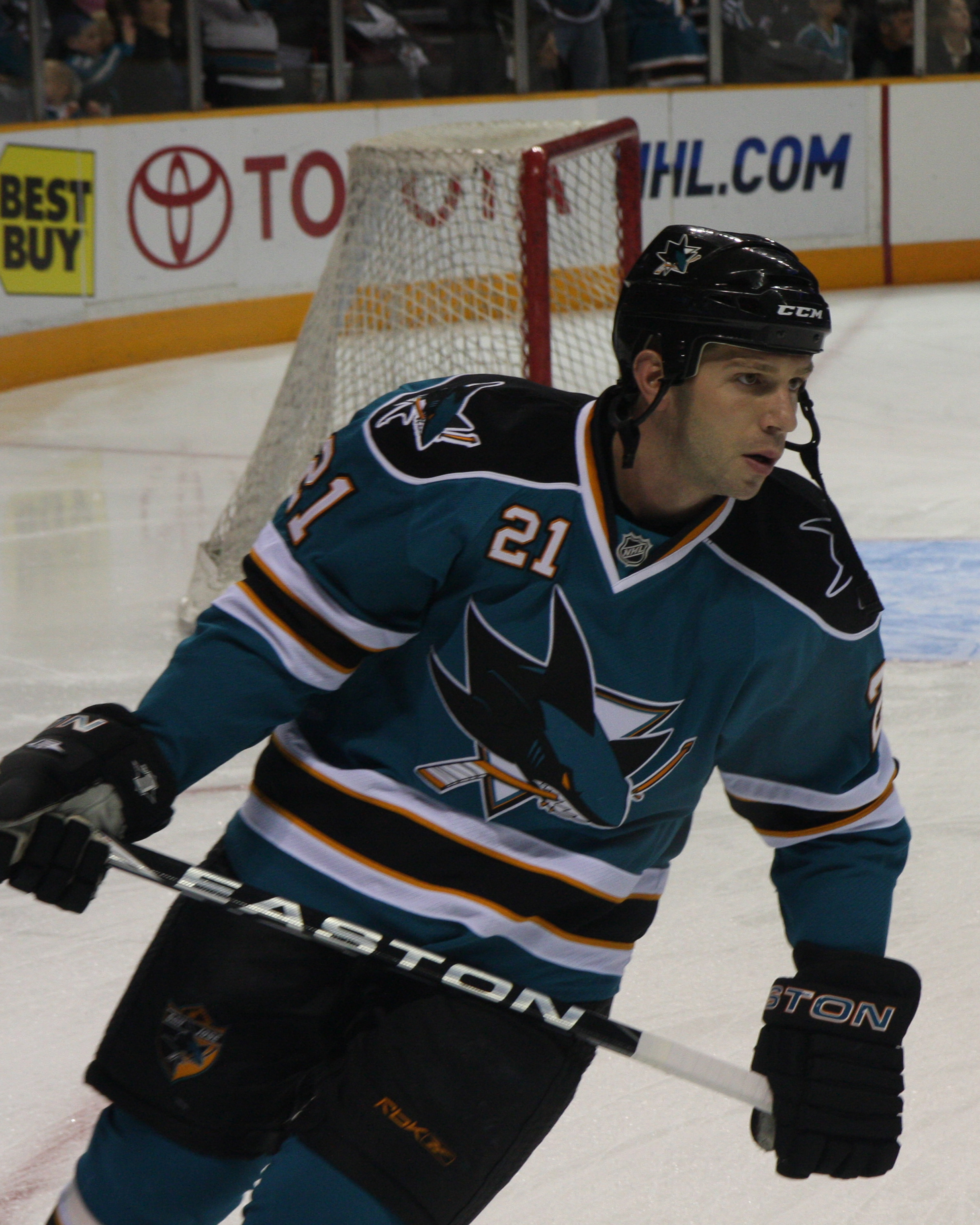 Scott Nichol during the Pre-Game Skate on November 20th, 2009 before taking on teh Flyers.